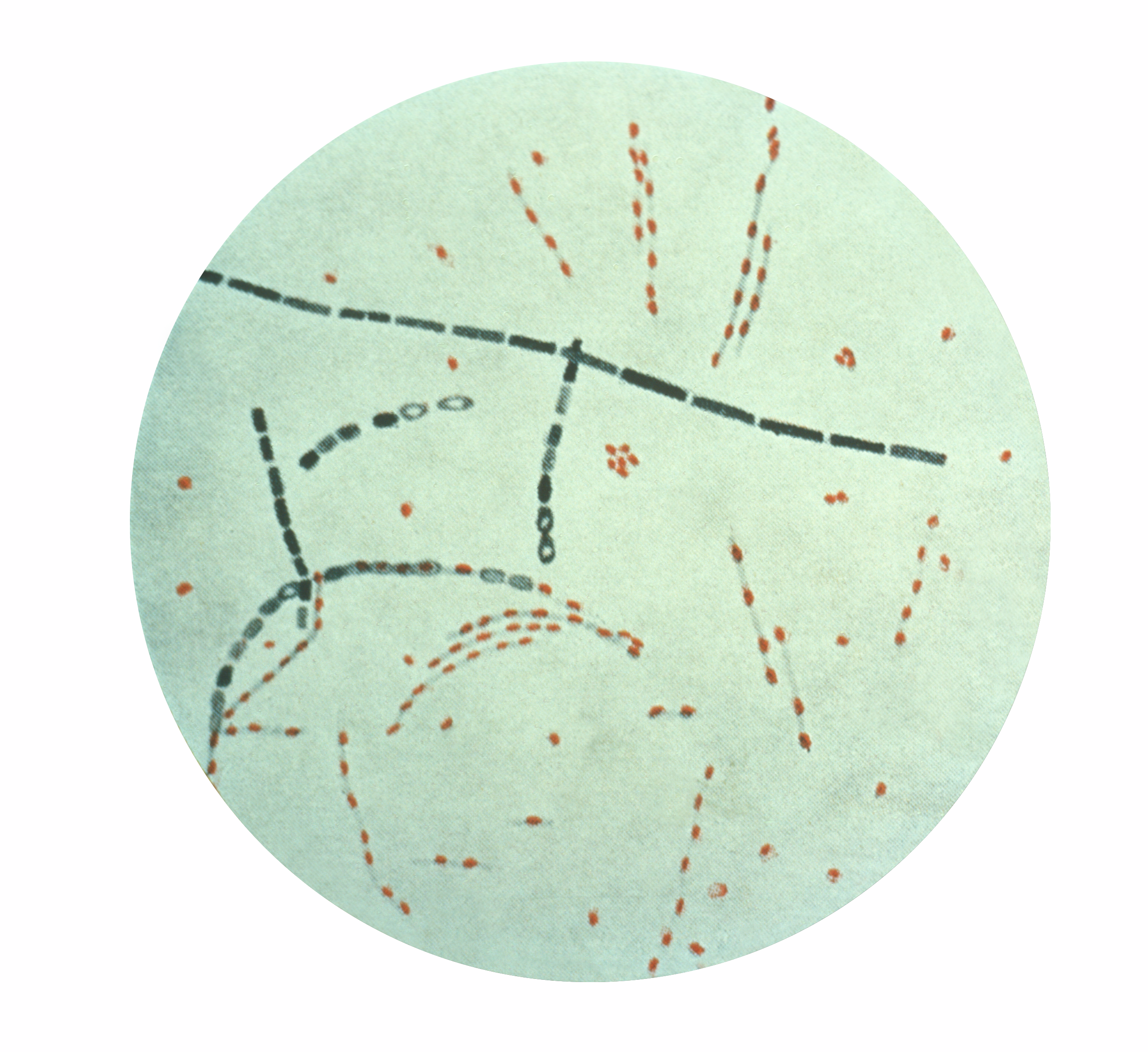 Photomicrograph of Bacillus anthracis from an agar culture demonstrating spores; Fuchsin-methylene blue spore stain.